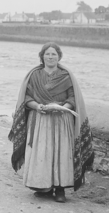 This is a cropped version of an image called Catch of the Day. It shows only one woman who is wearing a Galway Shawl. Claddagh, Galway, Ireland